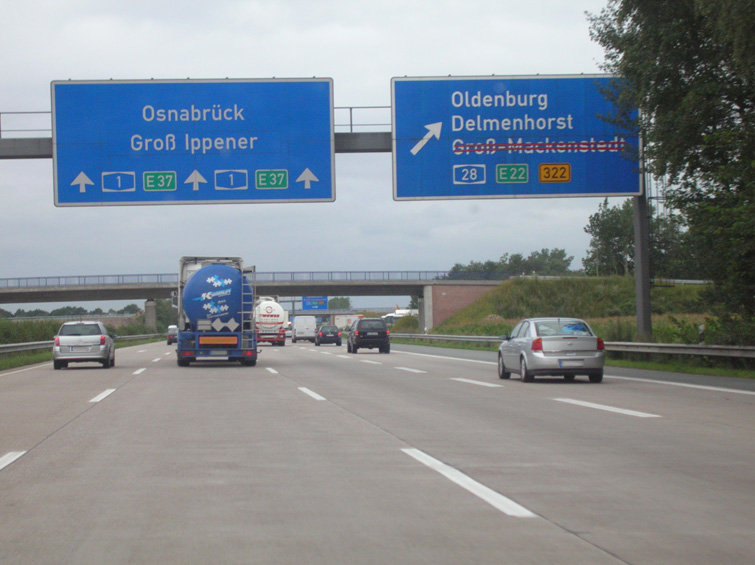 Overhead sign at the Bundesautobahn 1, southwest of Bremen.